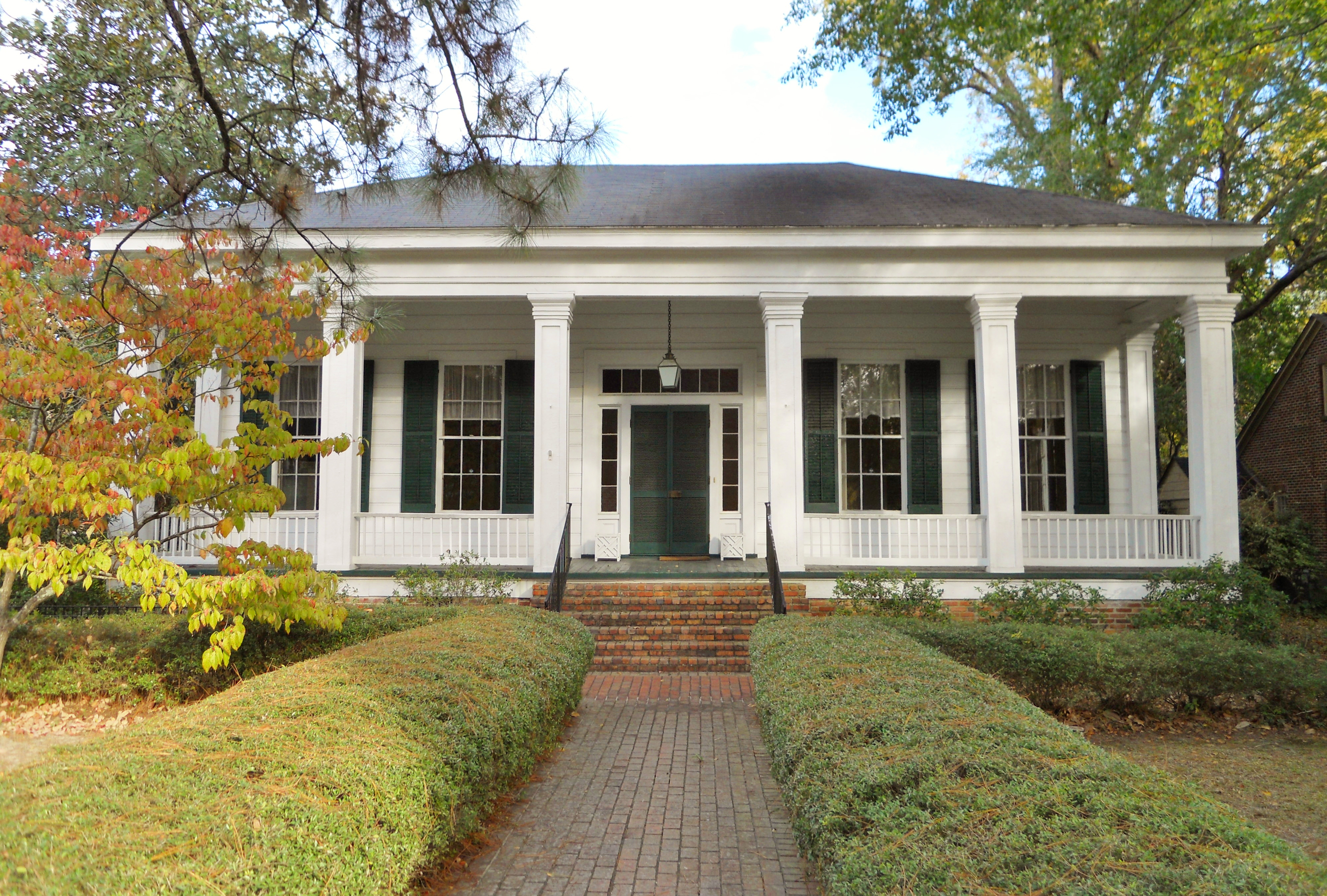 This is a photo of the Bray-Barron House in Eufaula, Alabama.